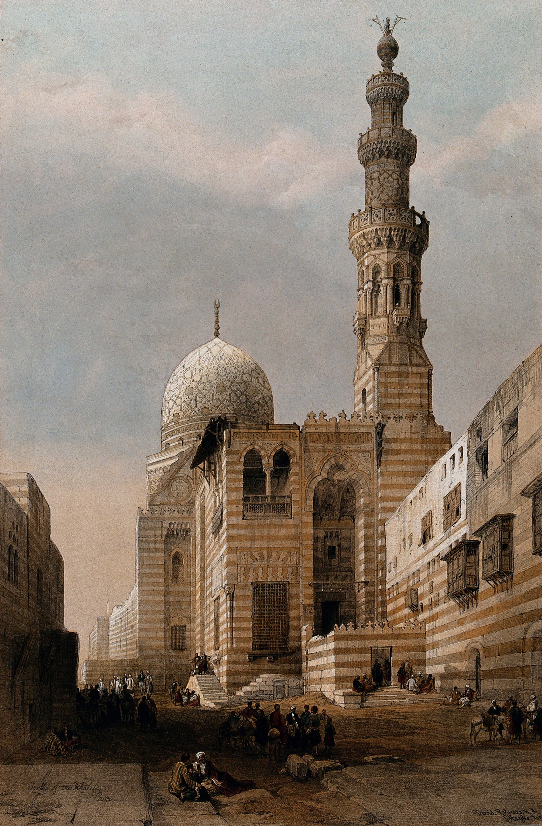 Tombs of the caliphs, with minaret, Cairo, Egypt. Coloured lithograph by Louis Haghe after David Roberts, 1848. Iconographic Collections Keywords: David Roberts; Louis Haghe